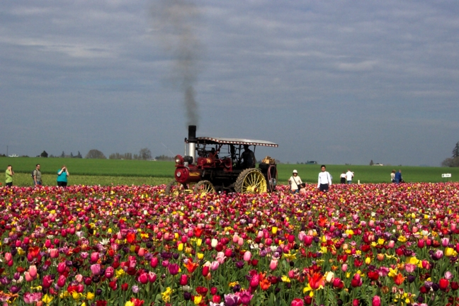 Tulip Festival in Woodburn, Oregon.